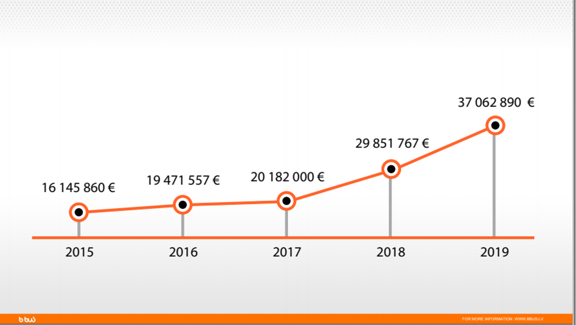 A graph showing the "B-Bus" group turnover by year.